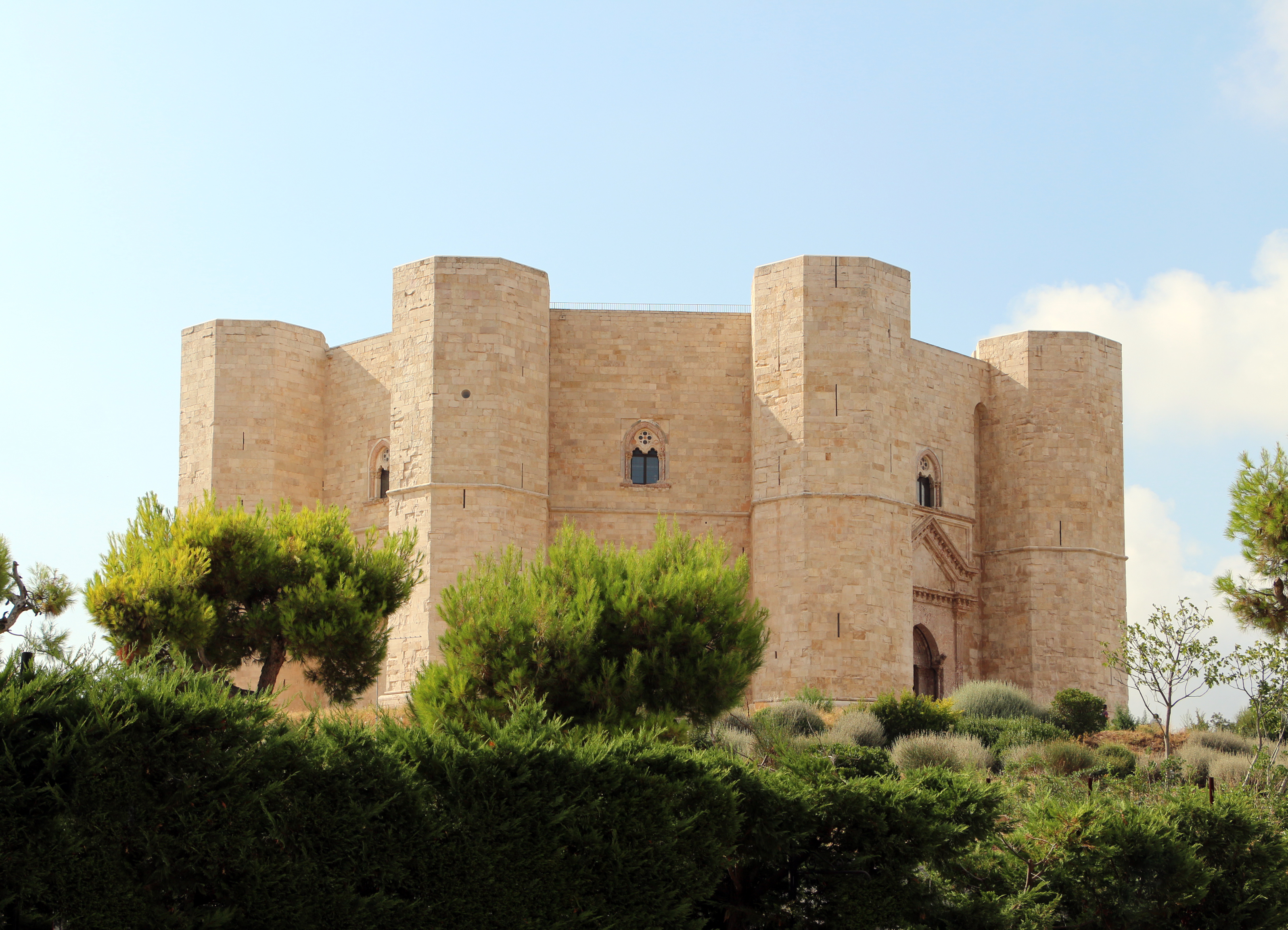 Castel del Monte